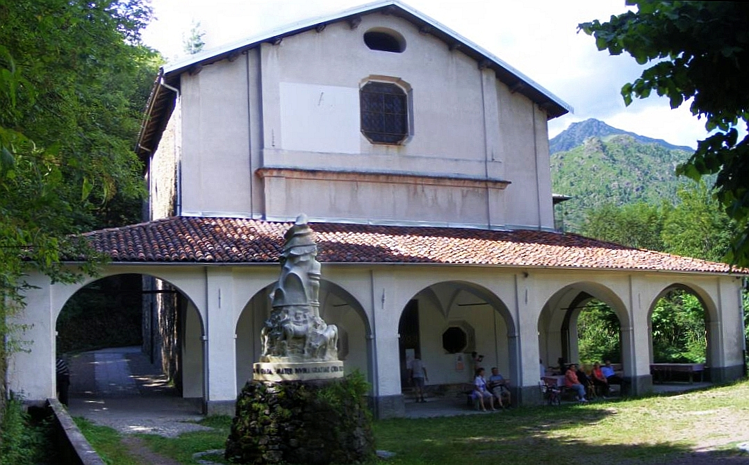 Novareia sanctuary; on the background Mount Barone (BI, Italy)